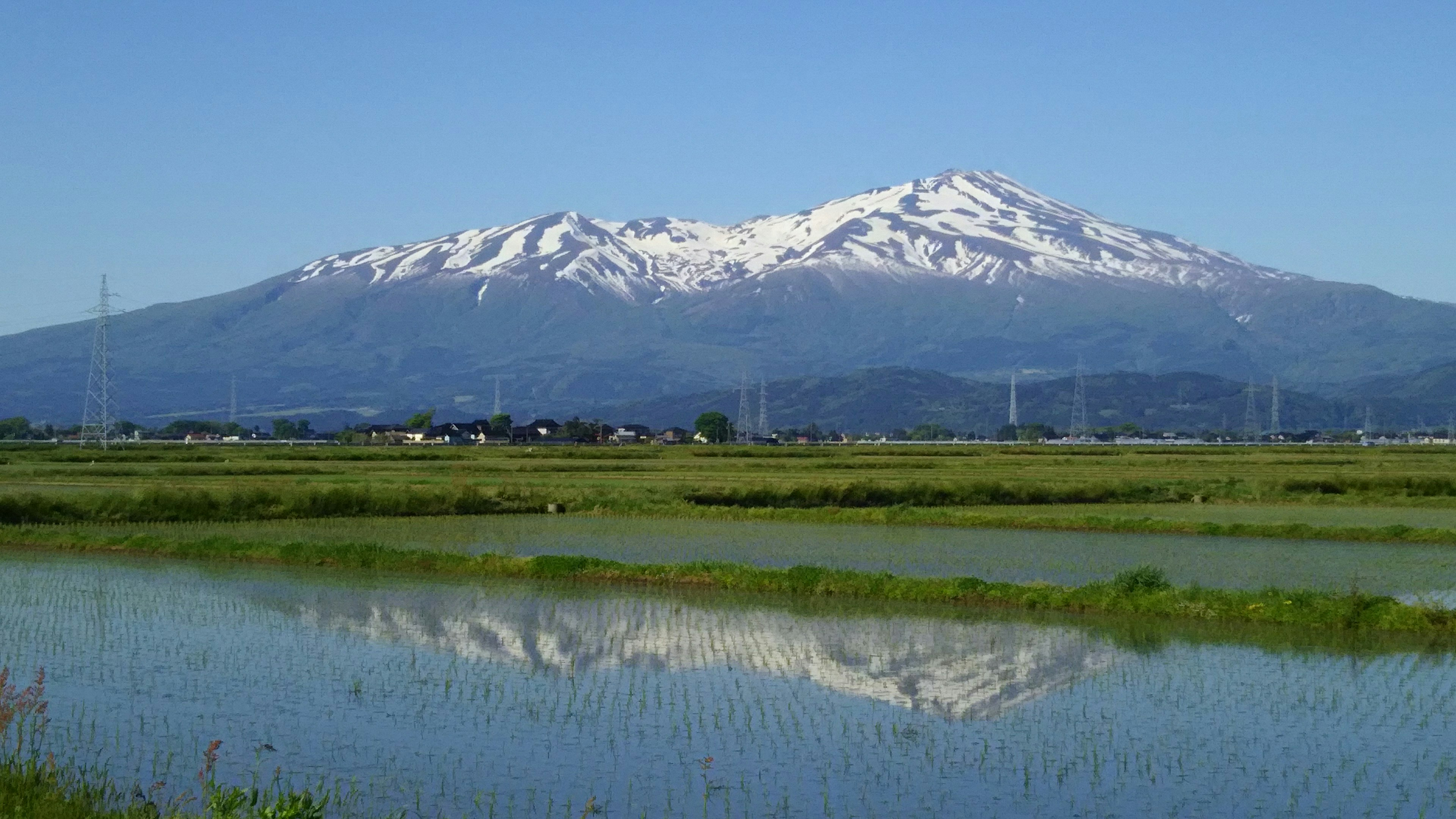 The southwest side of Mount Chōkai.